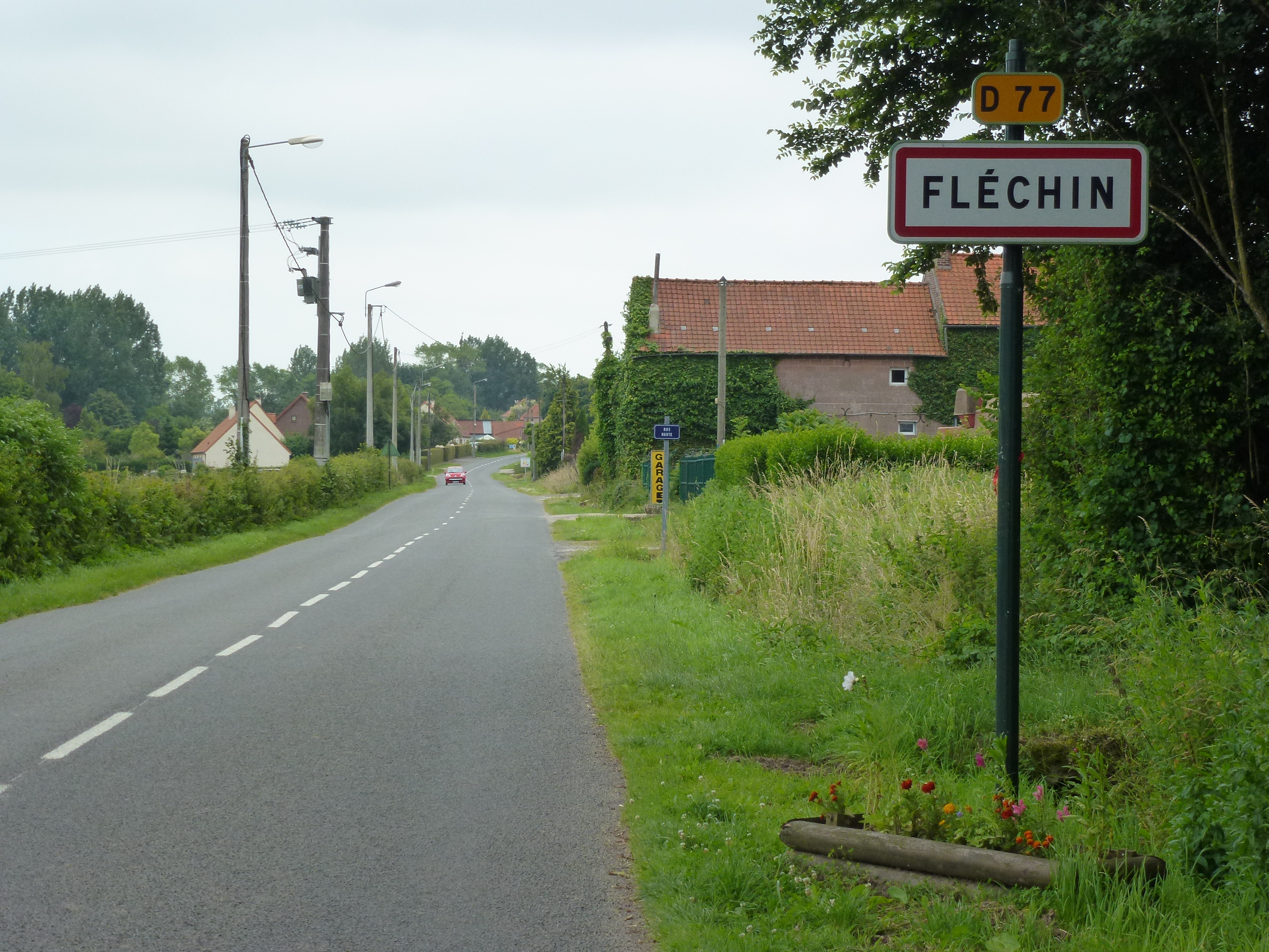 Fléchin (Pas-de-Calais) city limit sign Fléchin